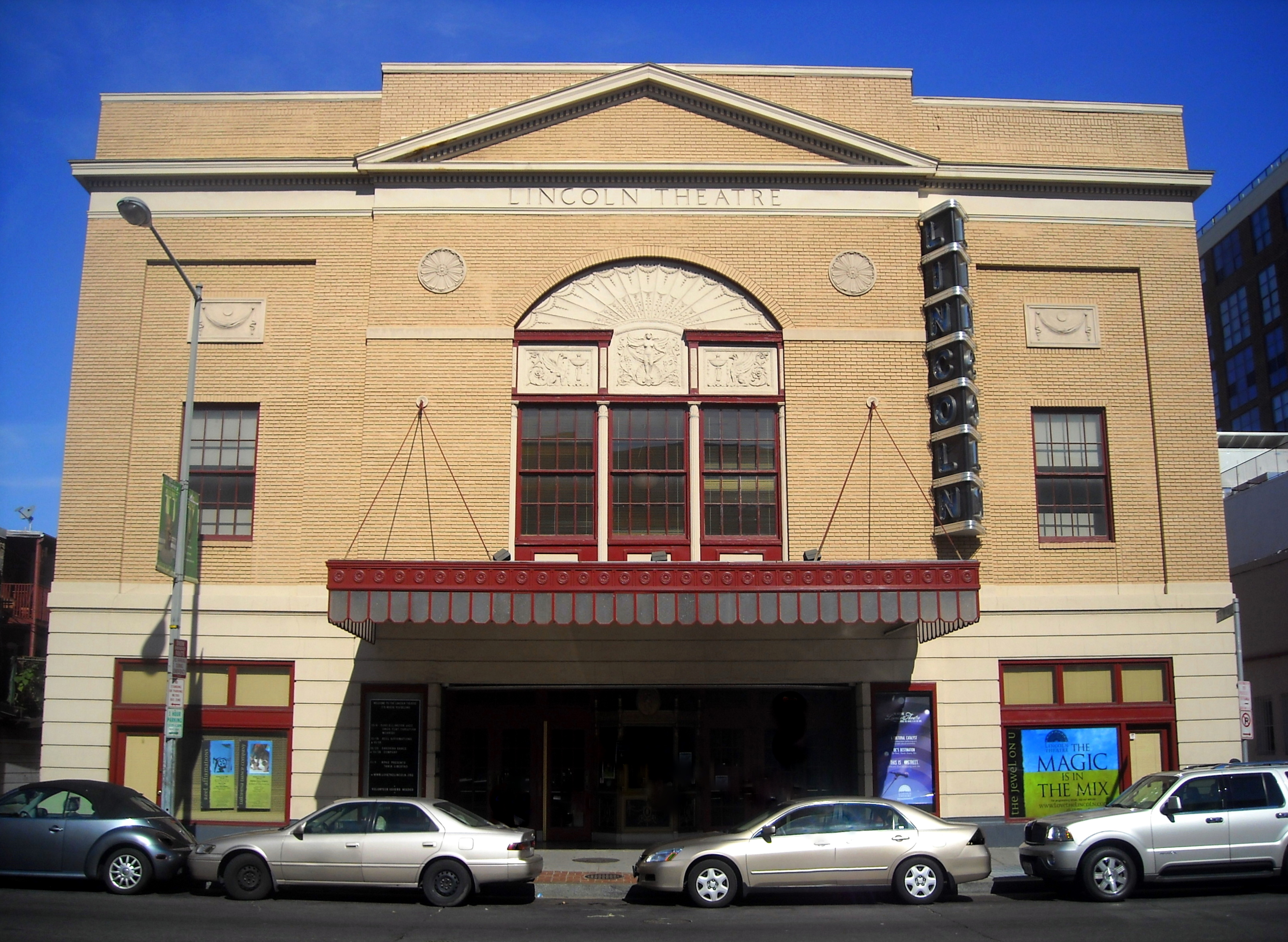 The Lincoln Theatre located at 1215 U Street, NW in the U Street/Shaw neighborhood of Washington, D.C.